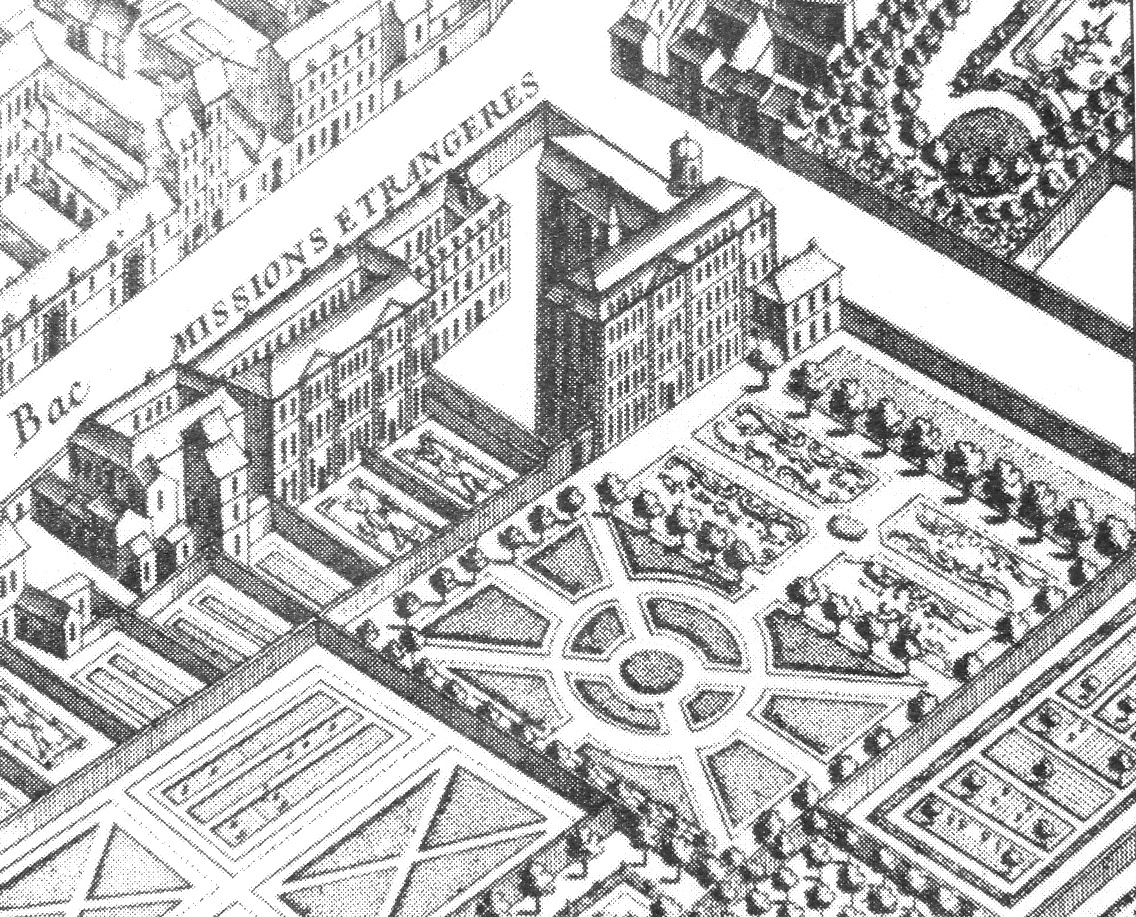 detail of Turgot map of Paris (1739) showing rue du Bac